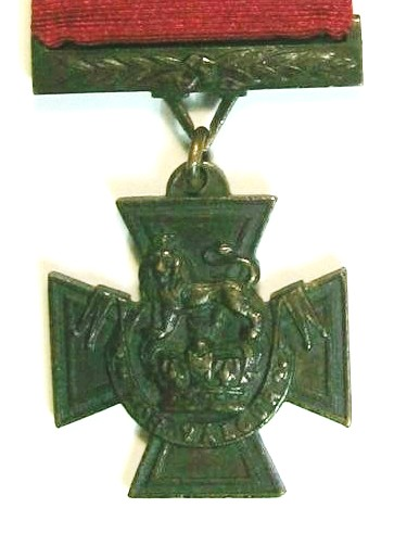 The actual Victoria Cross awarded to Sergeant George Walters